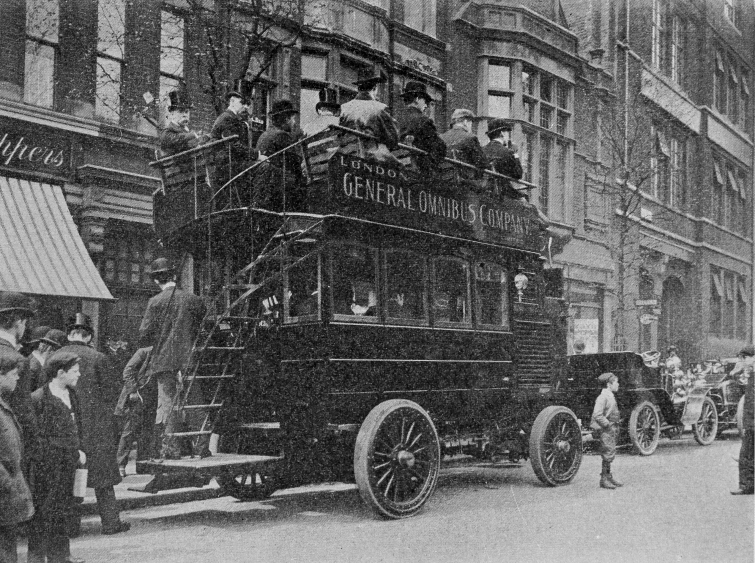 A motor omnibus. London General Omnibus Company, (circa 1903)